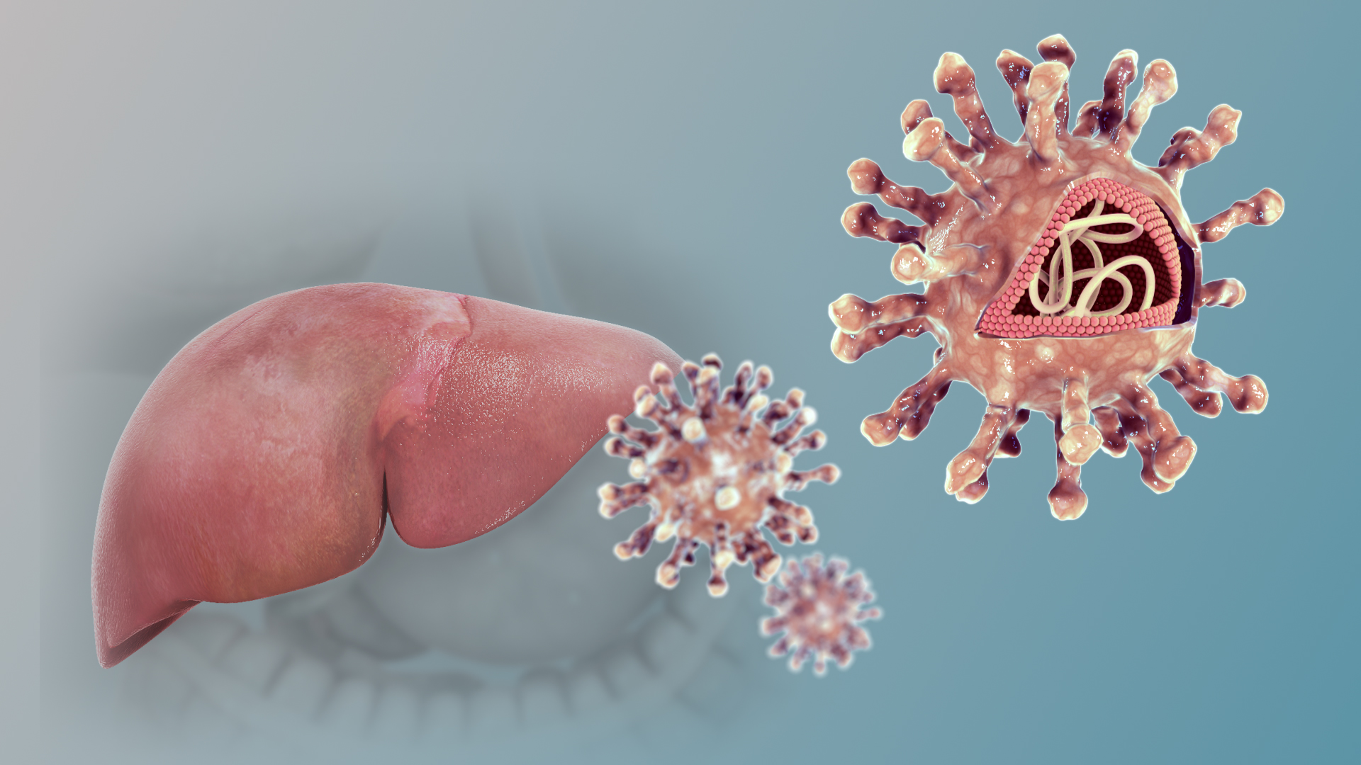 Hepatitis C virus - small, enveloped, single-stranded, positive-sense RNA virus.